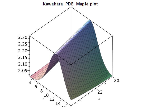 Kawahara pde Maple 3d plot